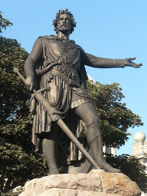 Aberdeen: William Wallace close-up Detail of 598092.